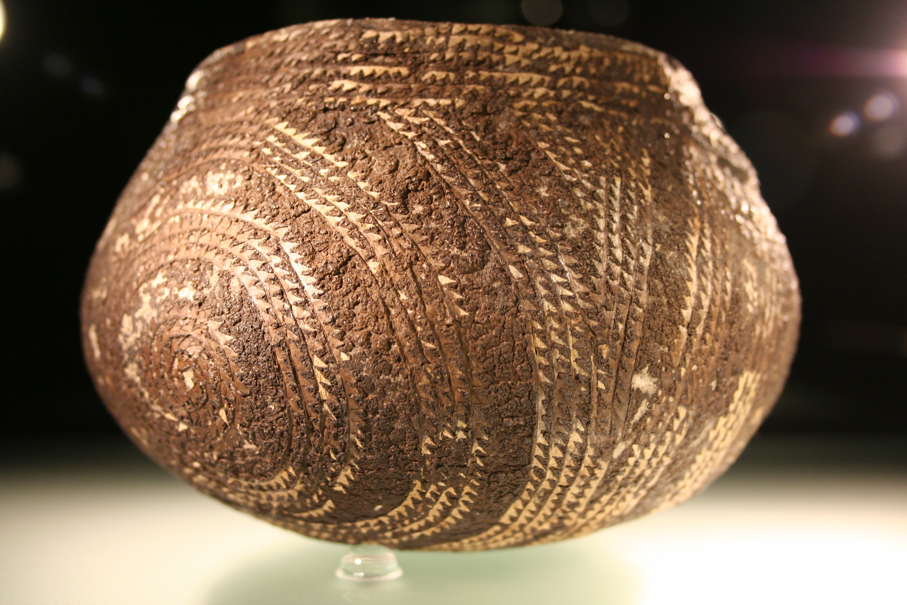 Broken pot (kumpf) that was patched and decorated with pitch and bark, found inside a Linear Pottery culture well at Schkeuditz-Altscherbitz